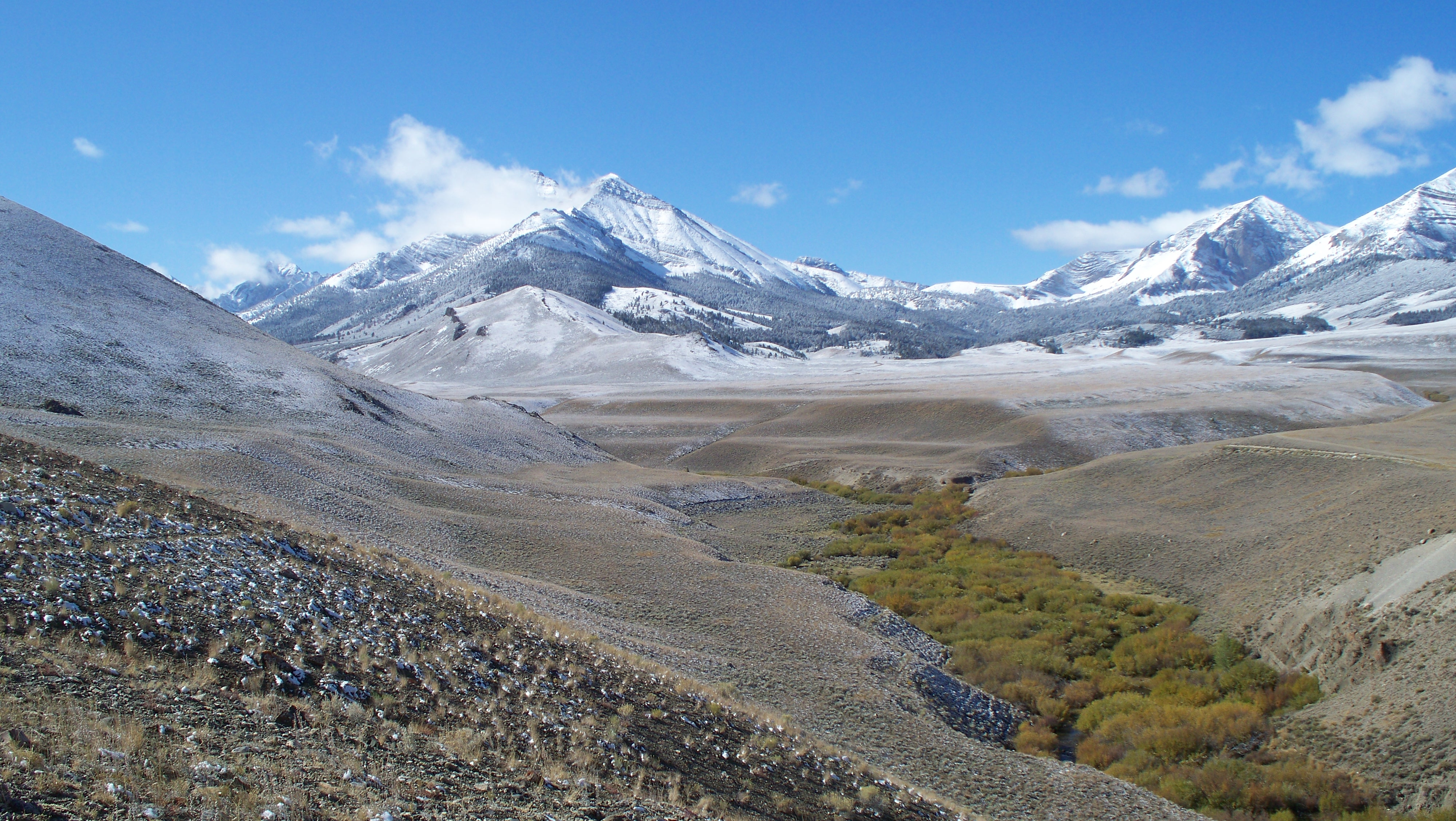 Pahsimeroi Valley looking west to Mt, Borah in the Lost River Range, J. Christenson, BLM